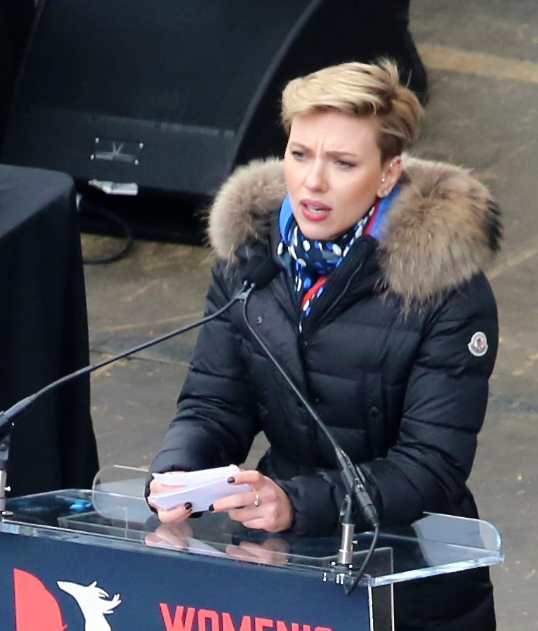 Scarlett Johansson speaks to the crowd at the Women's March on Washington.